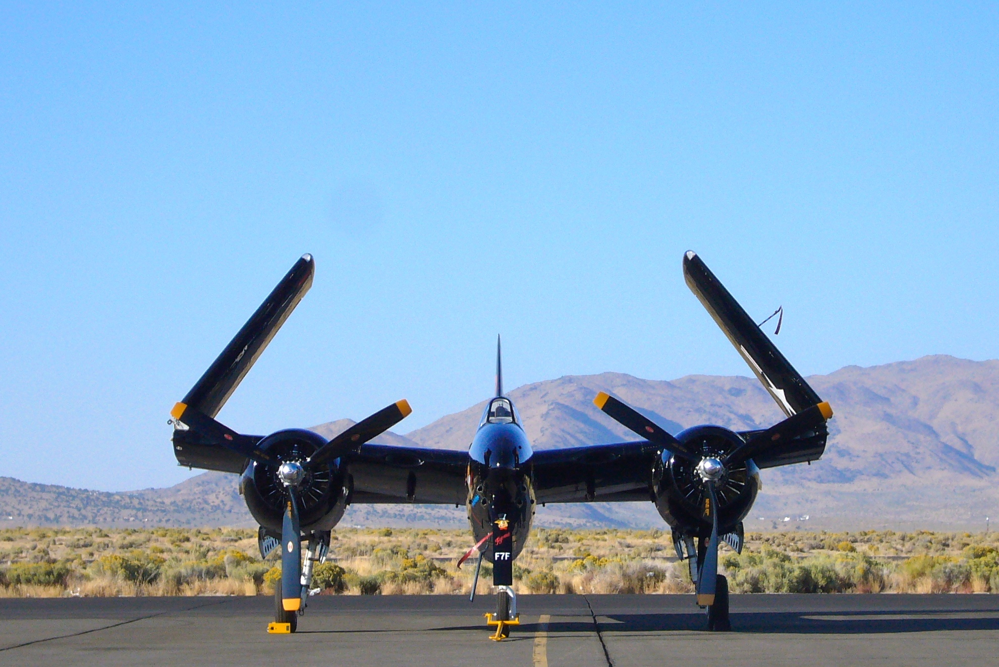 Grumman F7F-3N Tigercat "Big Bossman" at the 2006 Reno Air Races. Owned by Mike Brown.